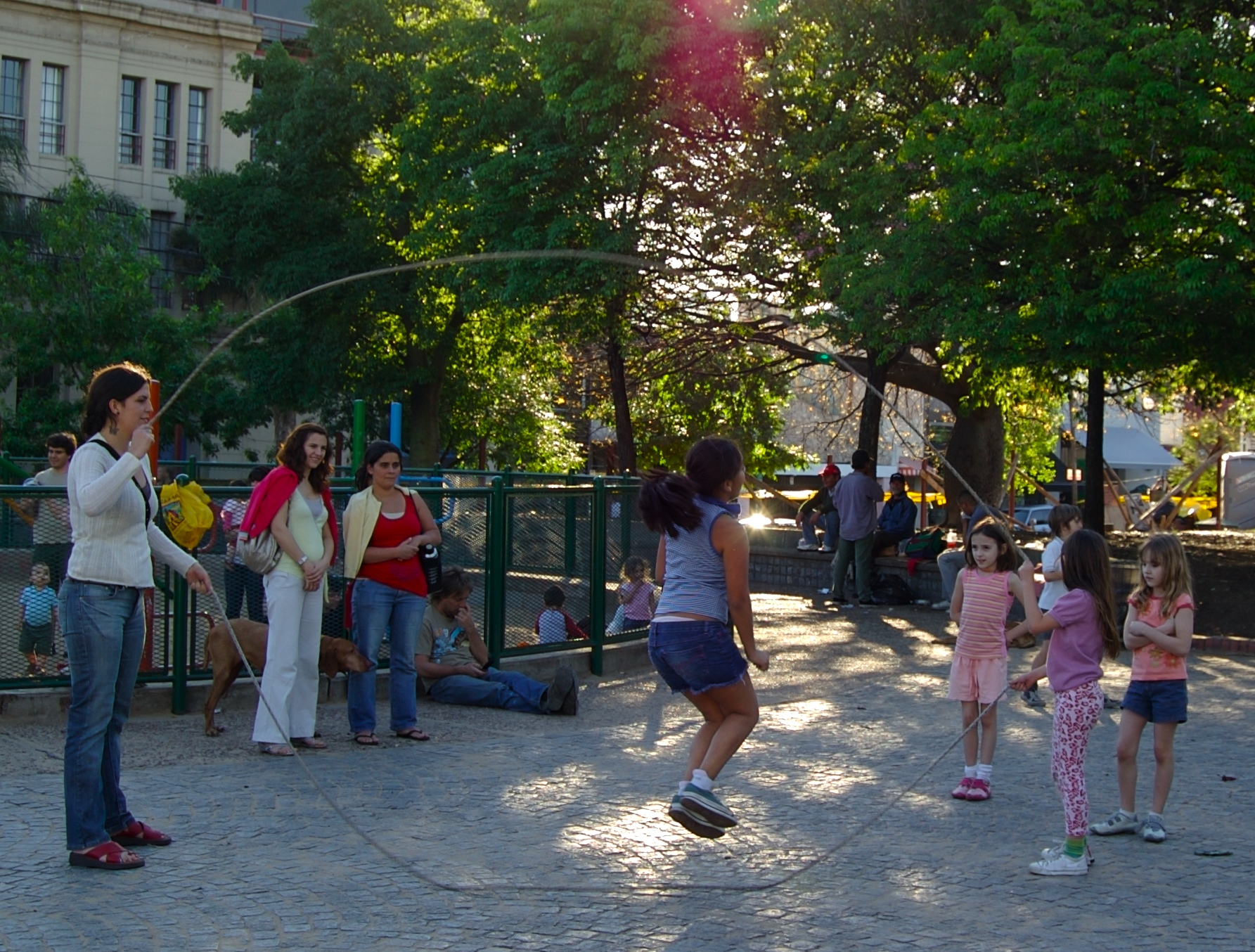 taken for this week's scavenger hunt